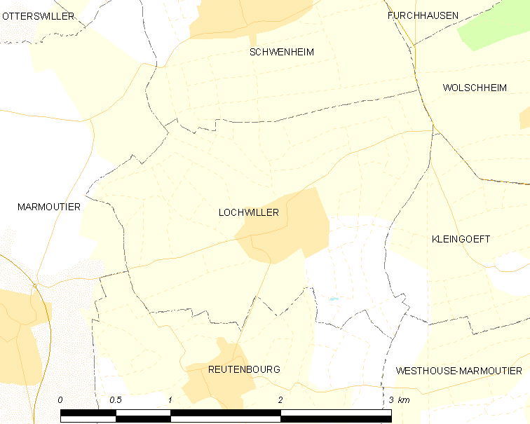 Map of French municipality